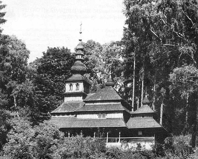 Church of Our Lady in Obava (Ukraine), 1788-1923.